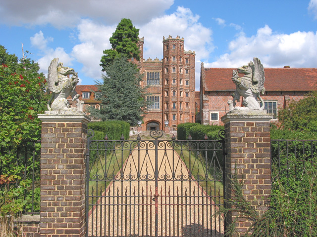 Layer Marney Towers. Layer Marney Tower is one of Essex's most famous landmarks. Built during the reign of Henry VIII by Henry, Ist Lord Marney, a respected member of the Privy Council. Fine brickwork was used for the construction with splendid terracotta decoration. The terracotta work is some of the finest in the country, probably carried out by Flemish craftsmen trained by Italian masters. The Tudor gatehouse is the tallest in Great Britain and is embellished with terracotta shells and dolphins. The gatehouse has three storeys but the hexagonal corner towers rise above the roof line and have eight rows of windows. Between the corner towers are two large rooms which were probably state apartments. Connected to the gatehouse are the east and west wings. There is also a south wing which is not joined to the rest of the building at all. Lord Marney died before the work on his house was finished and when his son died two years later, in 1525, all building work ceased. Since then the property has had several owners but the building has been well cared for over the years. The wings of the house are the living quarters of the present owners and only the gatehouse is open to the public. Climb to the top of the gatehouse for the views over the Essex countryside. Within the gatehouse there are displays showing the history of the tower and the families that have owned it. Layer Marney Tower has a Home Farm which is worked using traditional methods. A medieval barn displays some of its collection of Rare Breed farm animals. There is a farming exhibition and a farm walk. In 1267 Layer Marney was given a licence to enclose deer in a park and today there are 200 red deer on the farm.